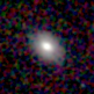 Galaxy NGC 5384